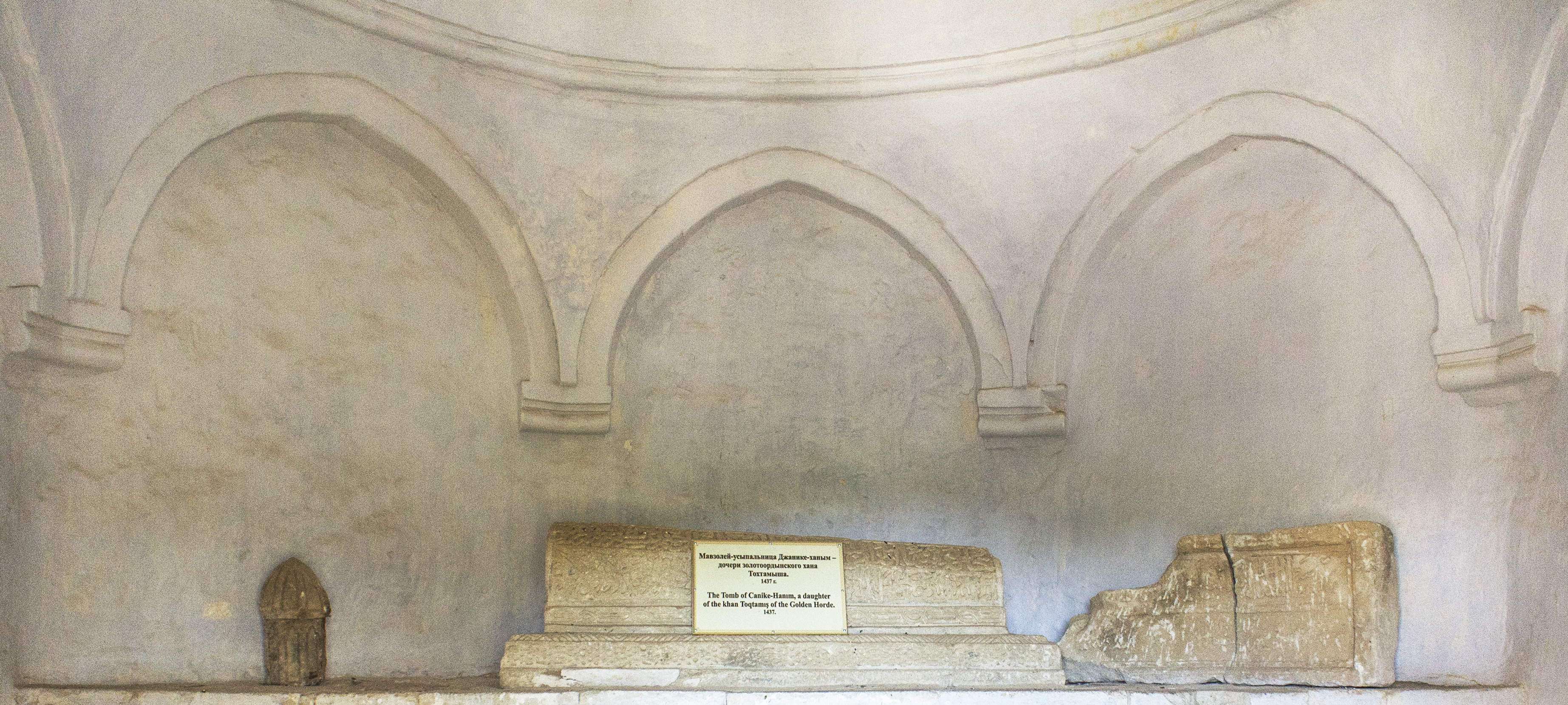 Chuft Kale, mausoleum of Tokhtamysh's daughter. Near Bahcisaray, Krim, Ukraine. Српски (ћирилица): Гробница (маузолеј) Џенике-ханим, хчере кримског кана Токтамиша. Чуфут-кале, Крим, Украјина. 15. век